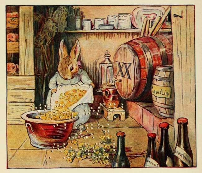 Illustration from children's book Cecily Parsley's Nursery Rhymes